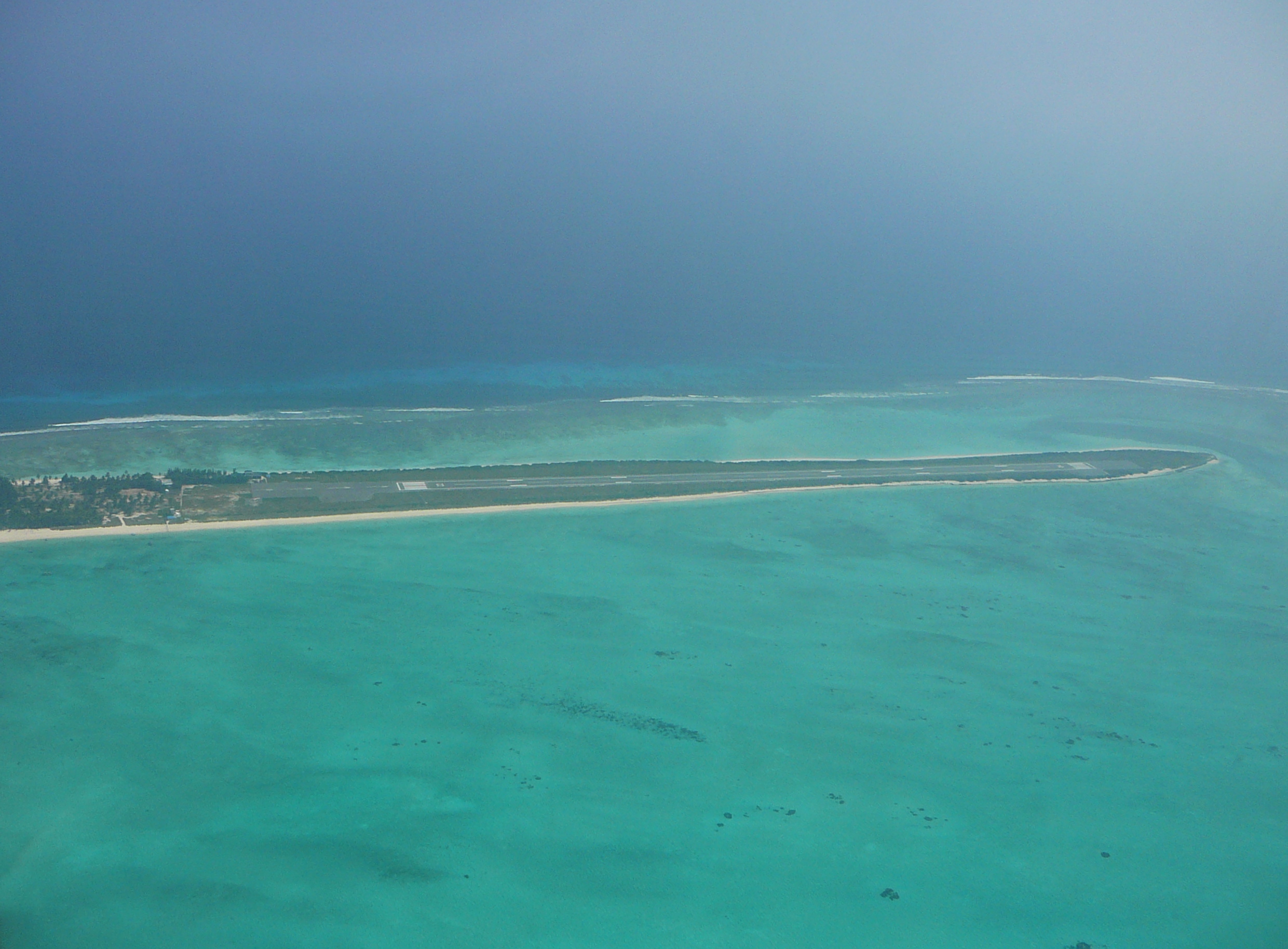 Aerial view of Agatti Aerodrome, Lakshadweep, India